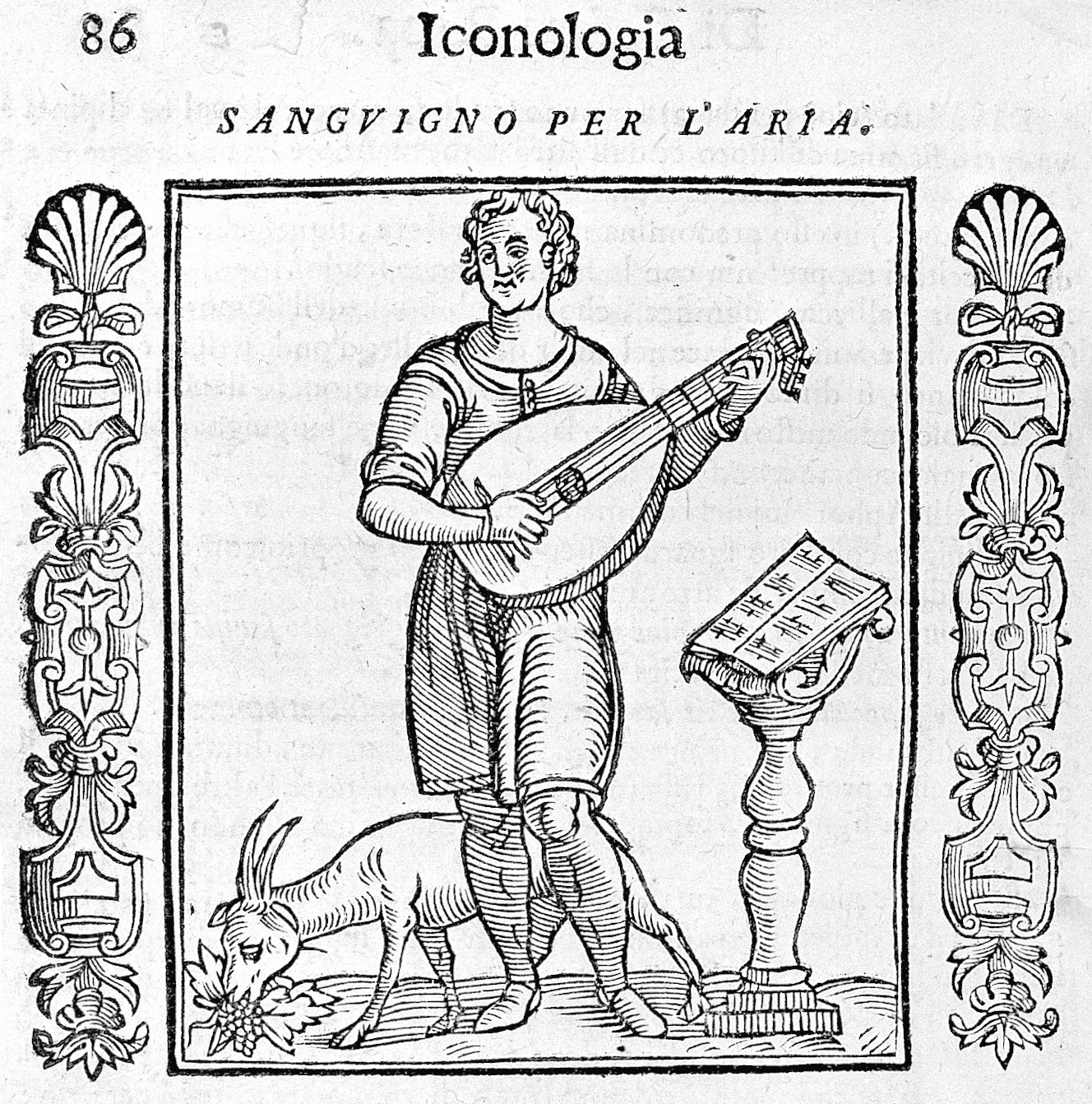 Lutenist corresponding to temperament based on sanguine humour. Part of a set of figures representing the four temperaments, (It. 'complessioni') determined by the four humours, and showing their affinities with the elements. Rare Books Keywords: 17th century; choleric; humours; temperaments